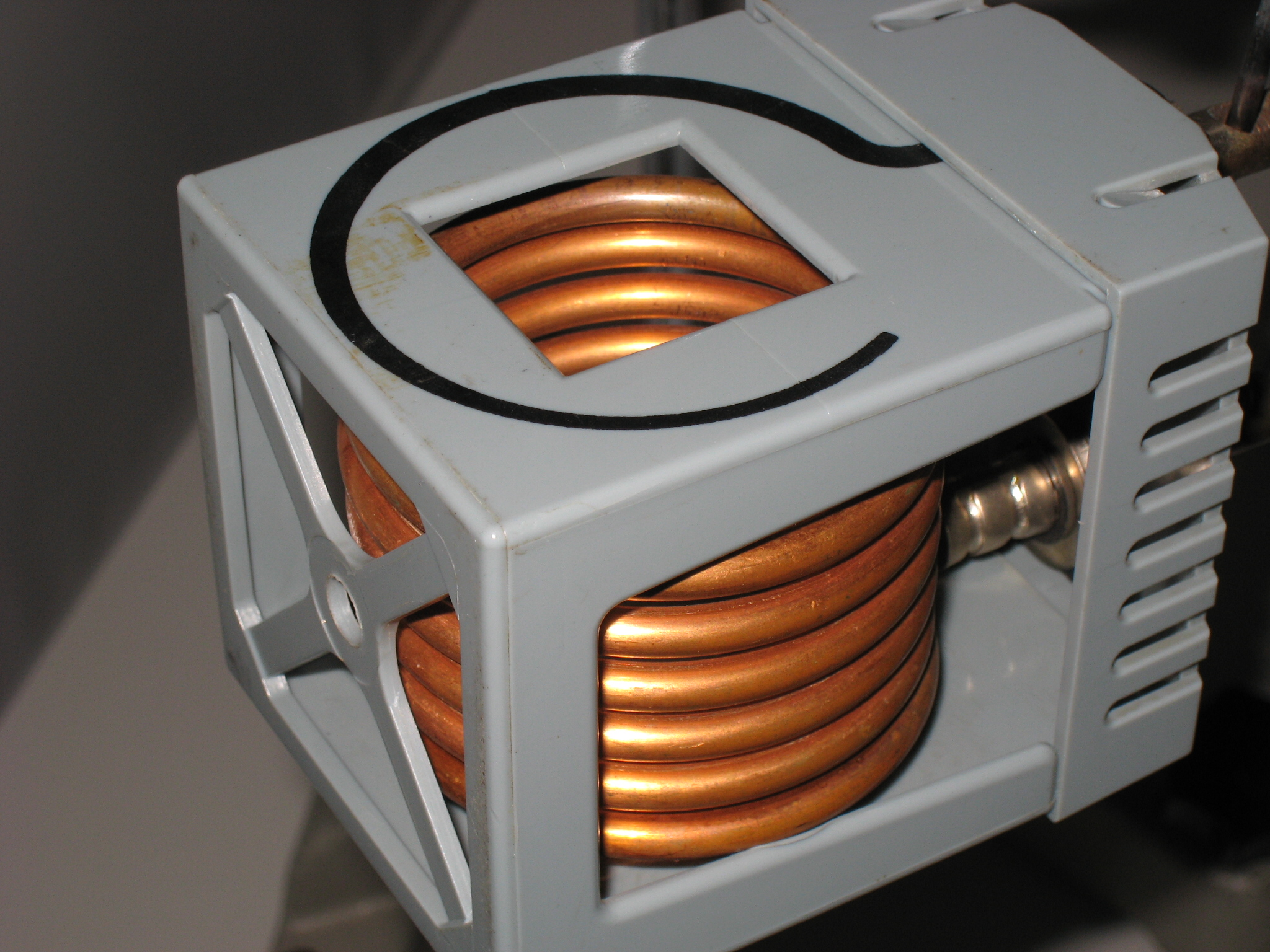 An inductor for physical experiment